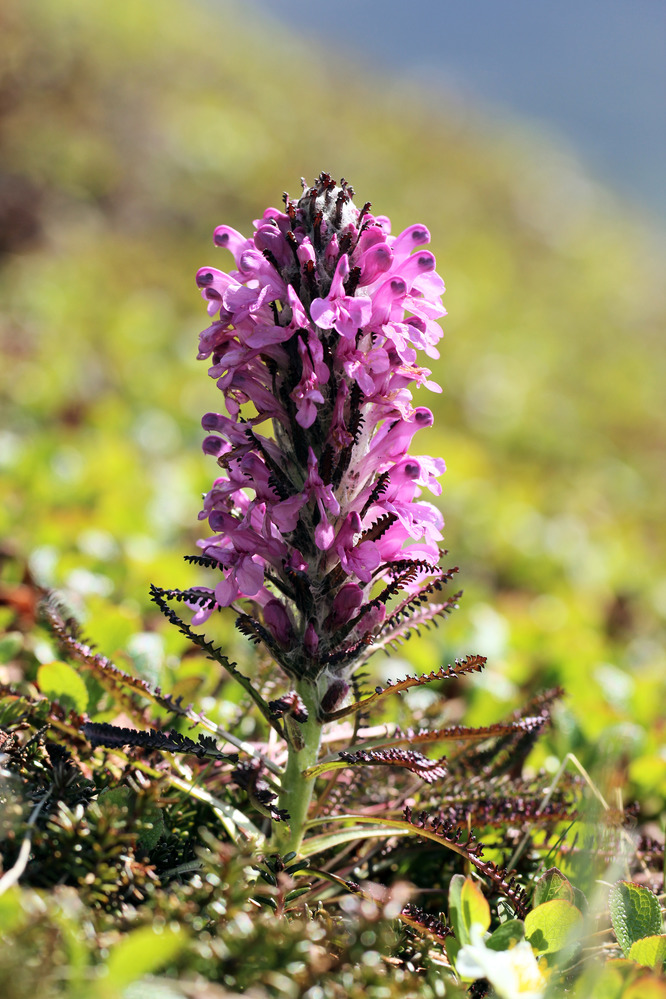 Woolly lousewort (pedicularis lanata) on the Arctic tundra at Lake Clark National Park, NPS Photo/A.Kirby.2012